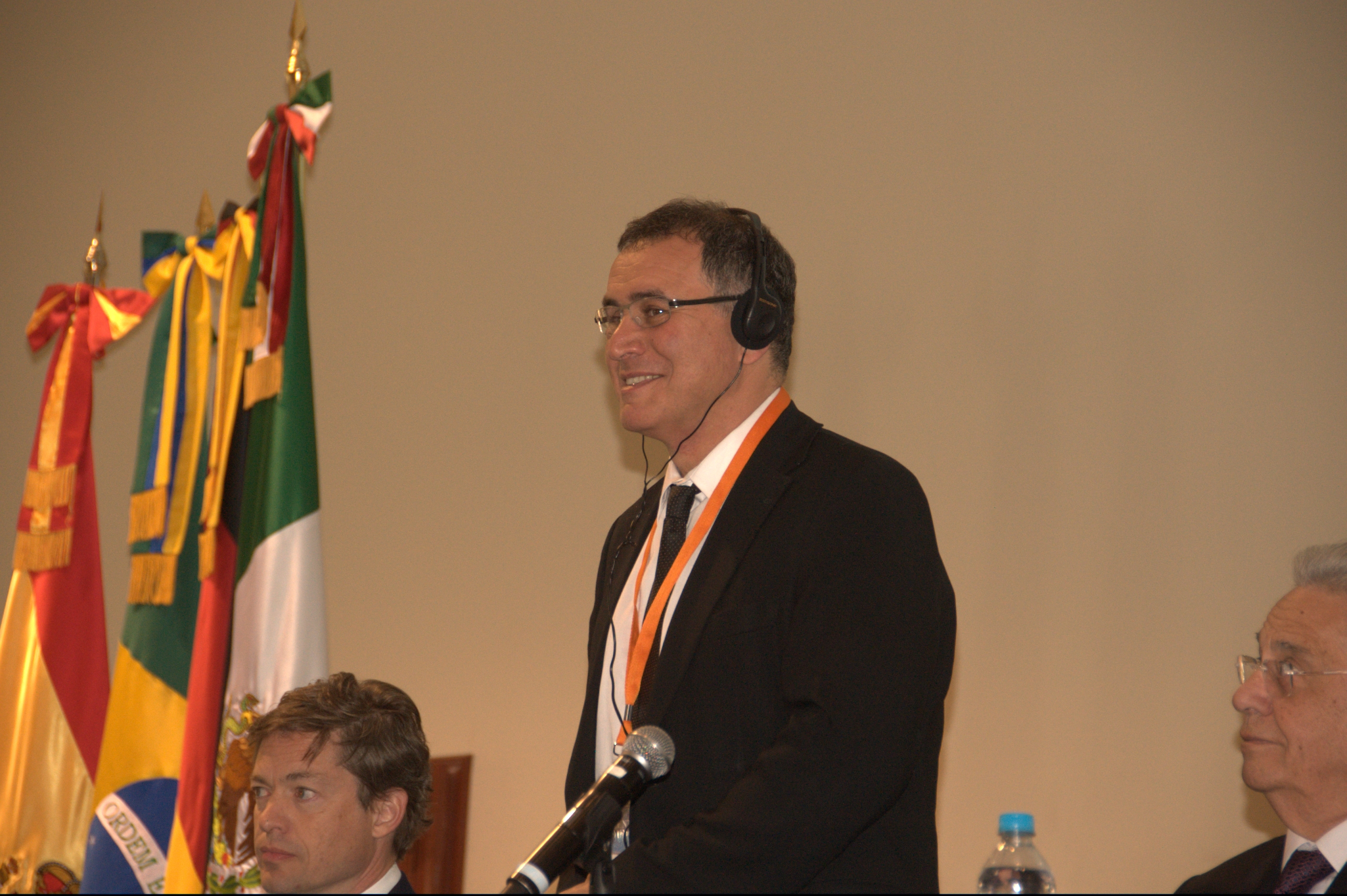 Nouriel Roubini at the Global Governance event at ITESM- Campus Ciudad de México